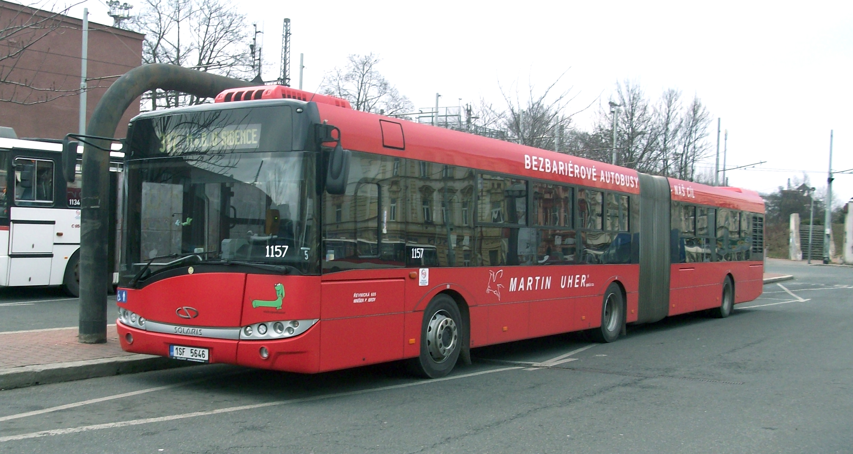 Solaris Urbino 18 Mk3 bus (#1157, reg. 1SF 5646) in Prague, Czech Republic. Martin Uher operator.